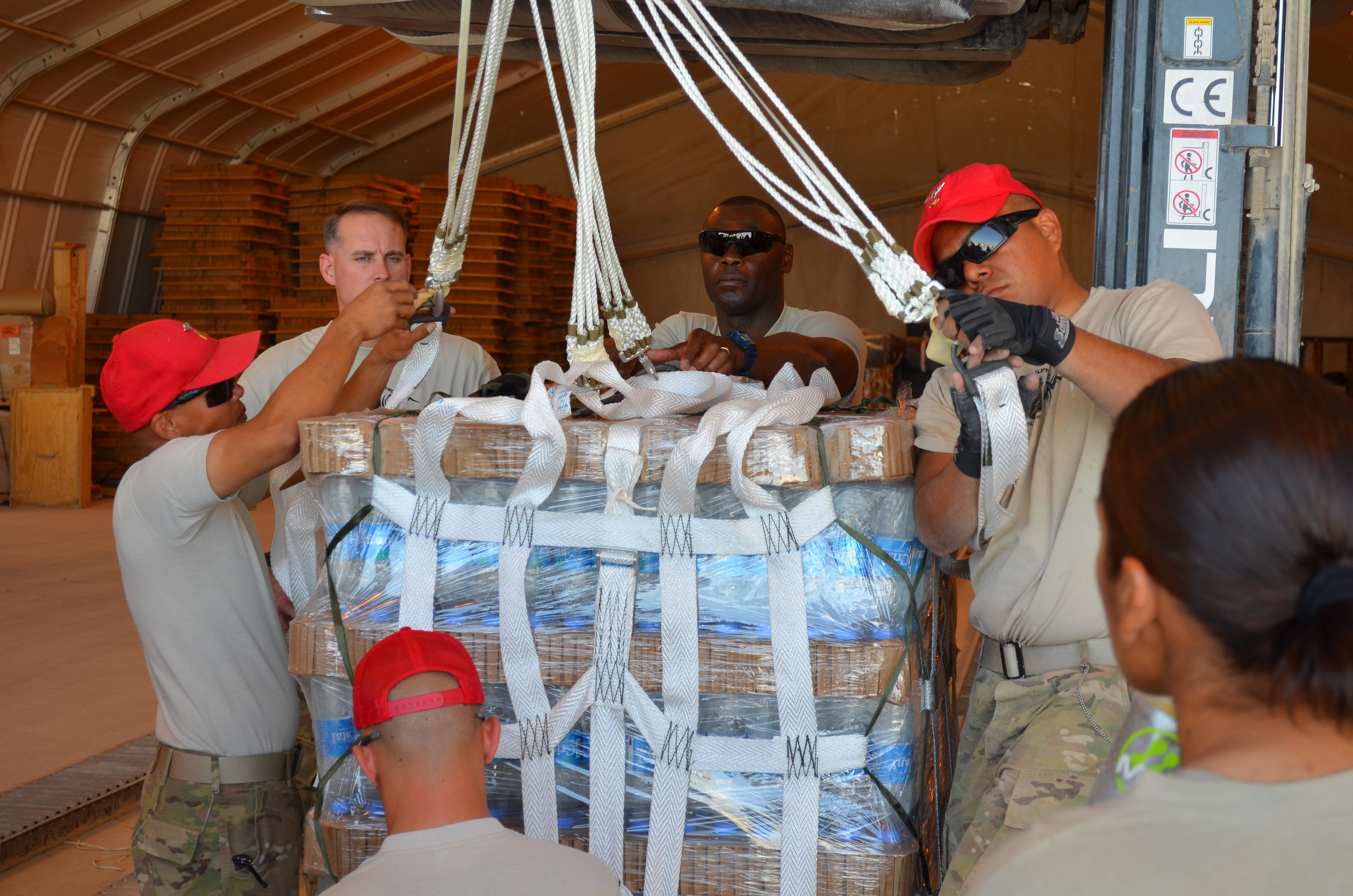 Riggers from 647th QM Det., 45th STB, 45th Sust. Bde. demonstrate hooking a parachute to a pallet of water on May 14 at Camp Red Hat, Kandahar Airfield, Afghanistan. The demonstration was part of the “Teach Me How to Rig” training event held for the leaders and staff of the 45th STB.